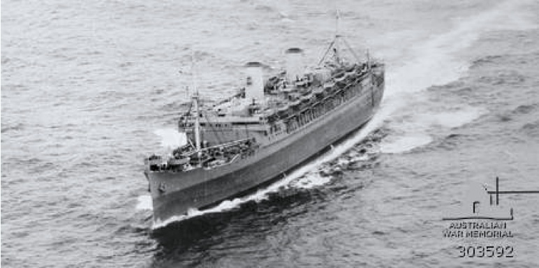 Aerial port bow view of the American transport SS Mariposa which made five troop carrying voyages to Australia between 1942 and 1944.